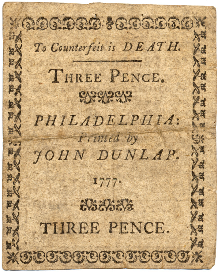 Back (reverse) of a three pence note, printed by John Dunlap, Philadelphia, Pennsylvania, 1777. "Three pence. This bill shall pass current for three pence according to an act of general assembly of the Common-wealth of Pennsylvania, passed the twentieth day of March ... Dated the tenth day of April, A. D. 1777" Library of Congress, Washington, D. C